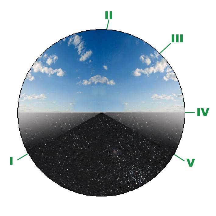 Muslim prayertimes during the day